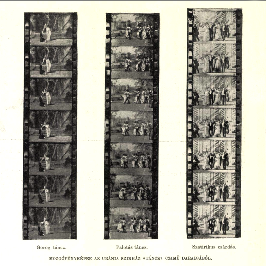 Three pieces from the first Hungarian film "A táncz" (The Dance) saved from fire. During the development of film, a fire broke out in the cinematographic laboratory on April 3, 1901, destroying the scenes shot until then. The three scenes show "ancient Greek dance", "palotás" and "satirical csárdás".